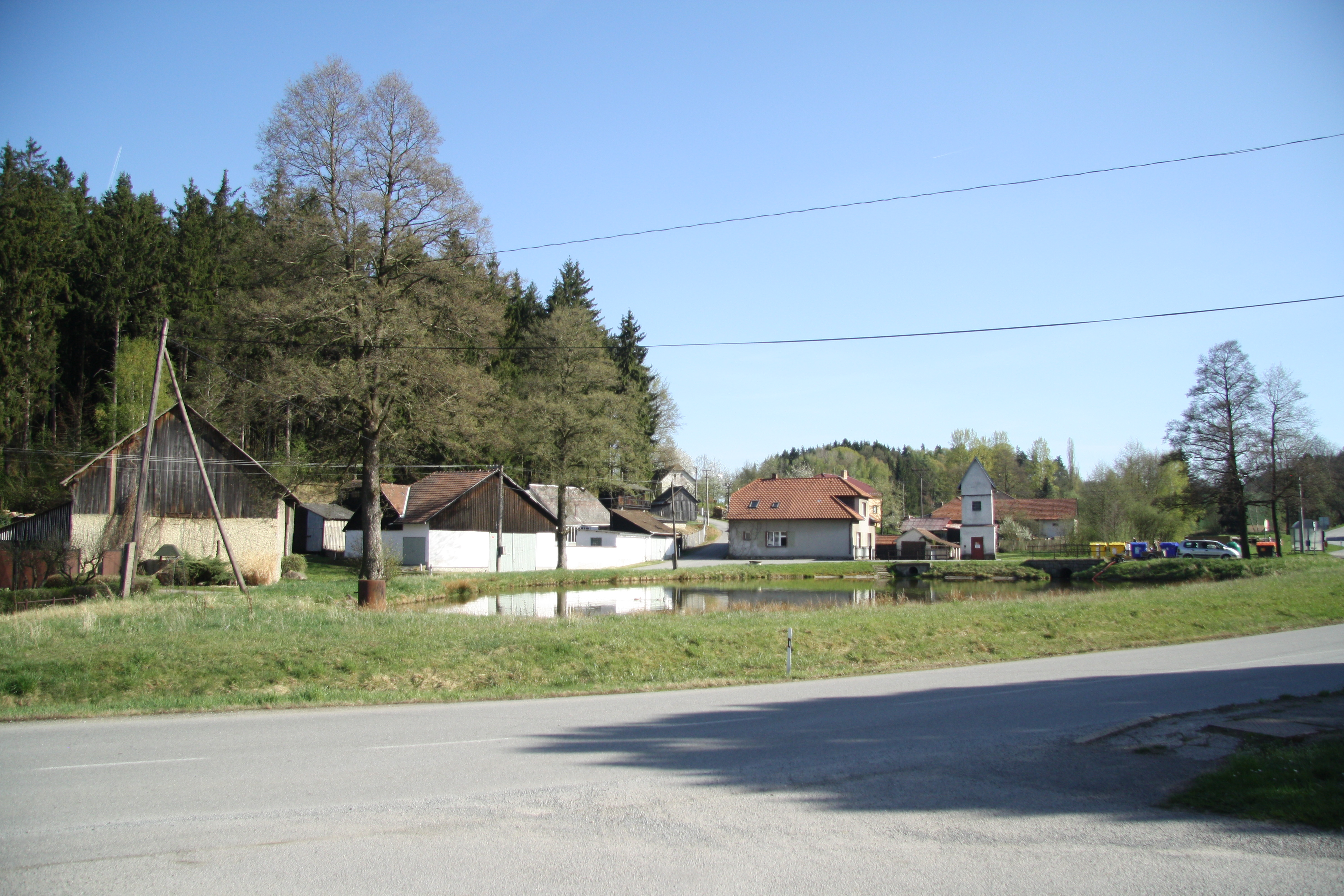 Center of Myslotín, Pelhřimov, Pelhřimov District.